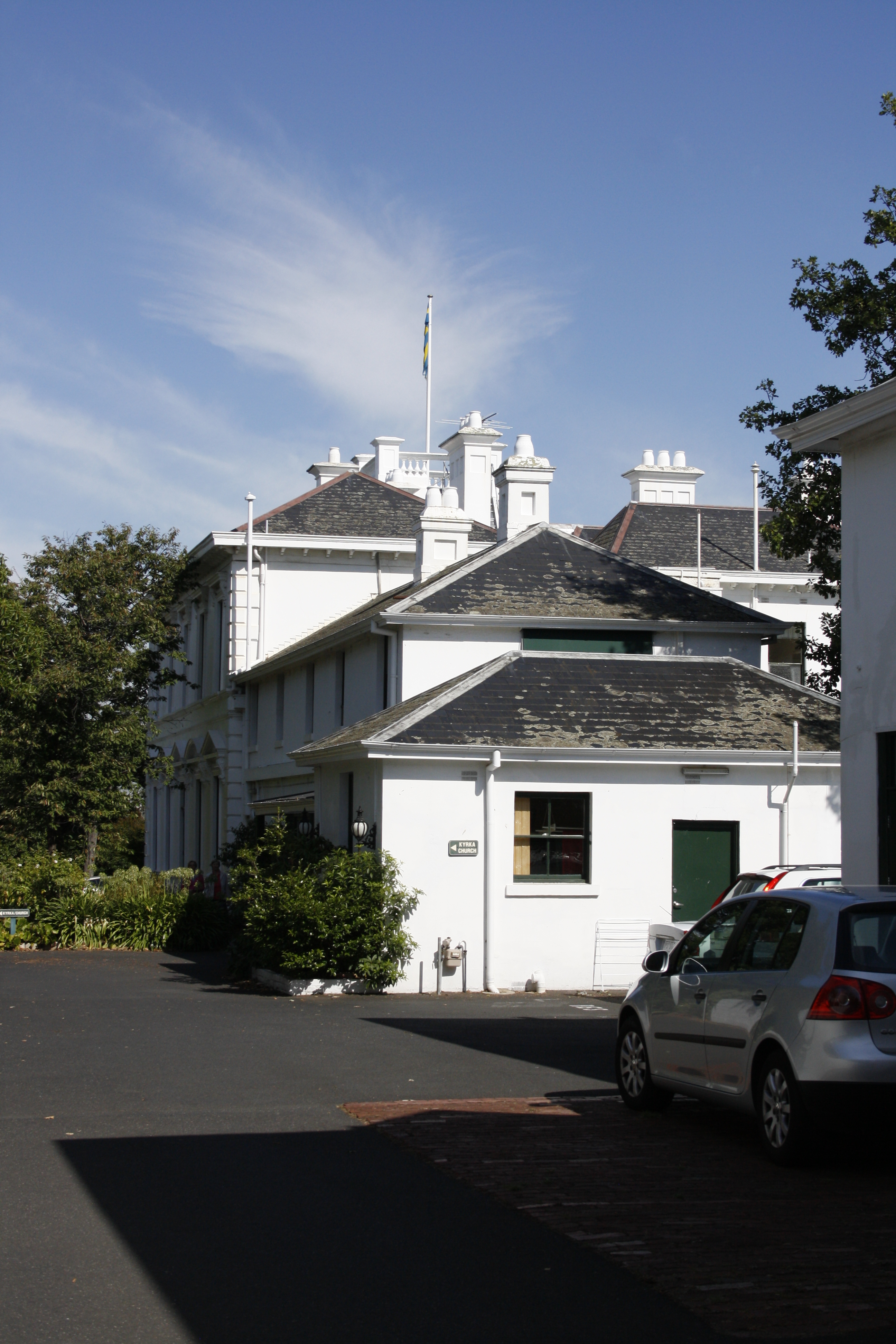 Toorak House, inside the front gate. Melbourne